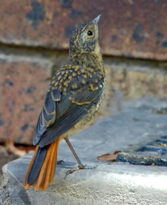 Cape Robin-Chat (Cossypha caffra) by a building, showing dorsal plumage